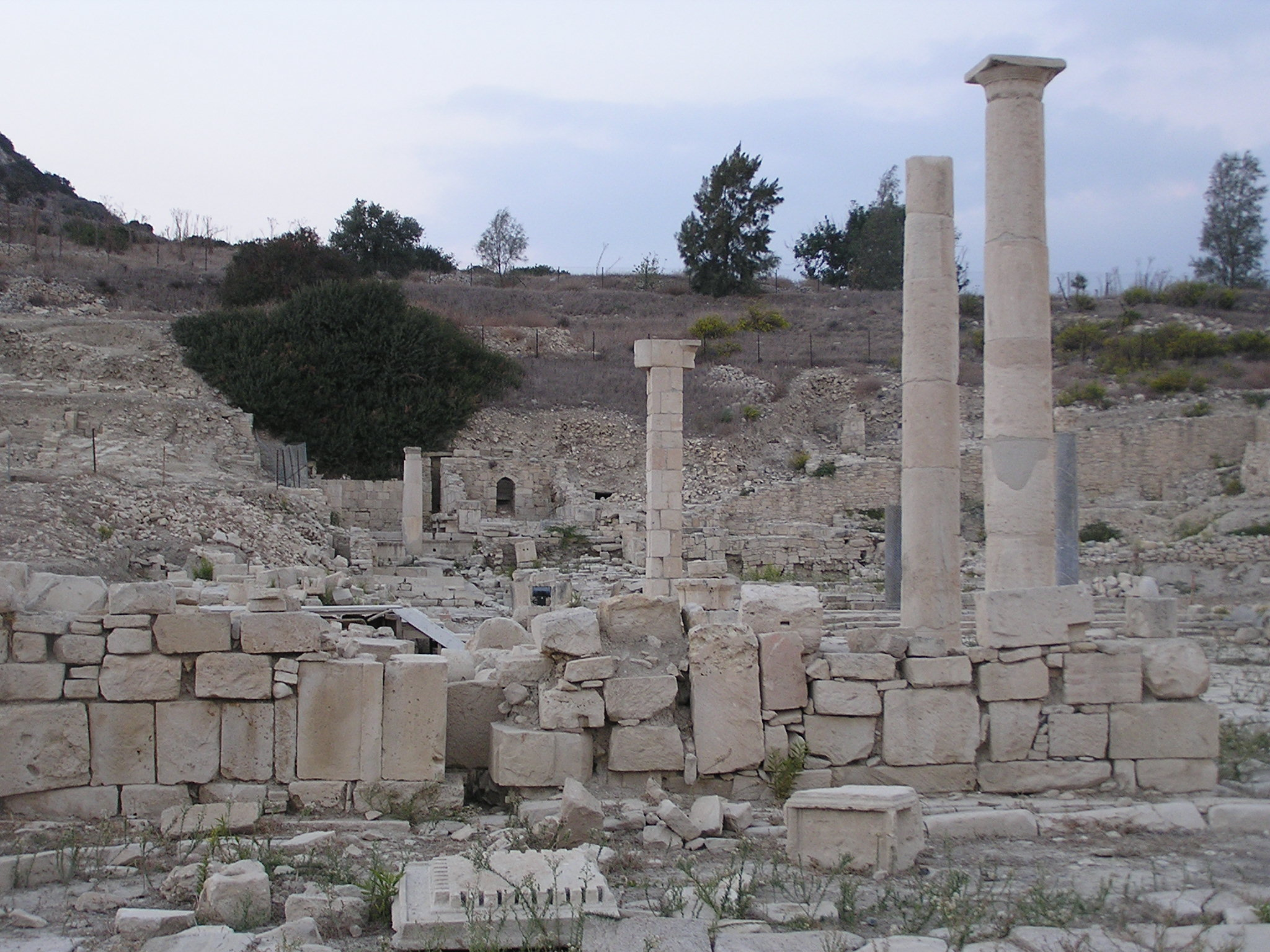 Taken in ancient Amathus (Cyprus). October 2005